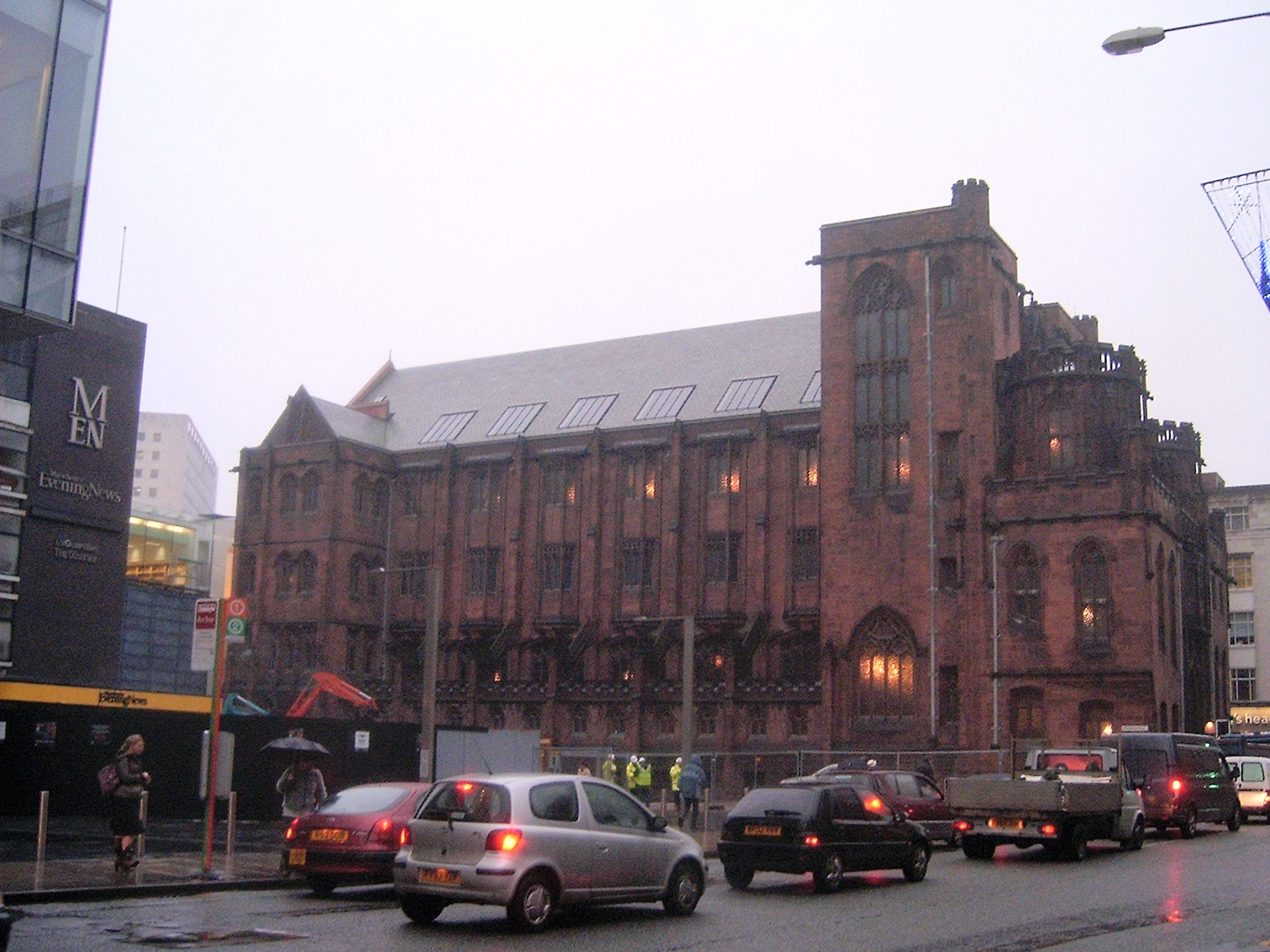 John Rylands Library